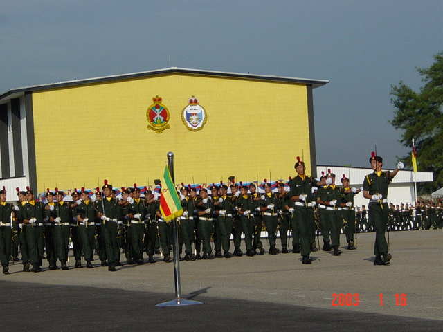 A recent annual passing-out parade at the RMC's marching grounds, also known as the parade square. The building in the background is the Tun Templer Hall.